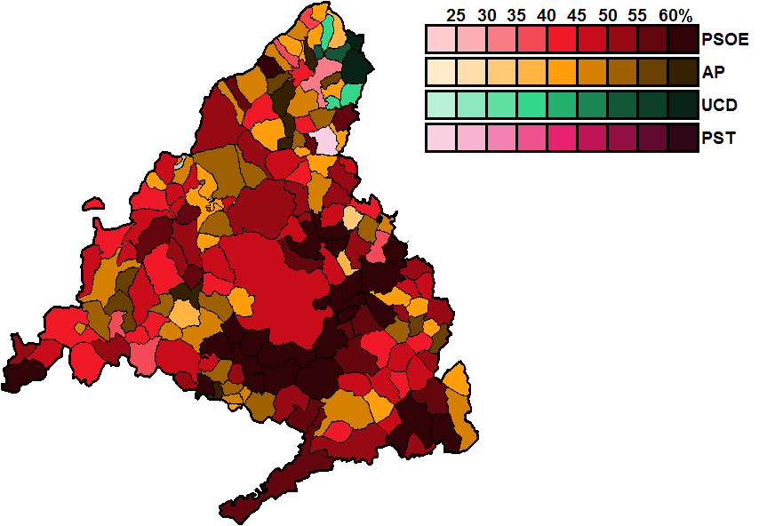 Most-voted party in Madrid municipalities, showing vote share obtained, in the Spanish general election, 1982.